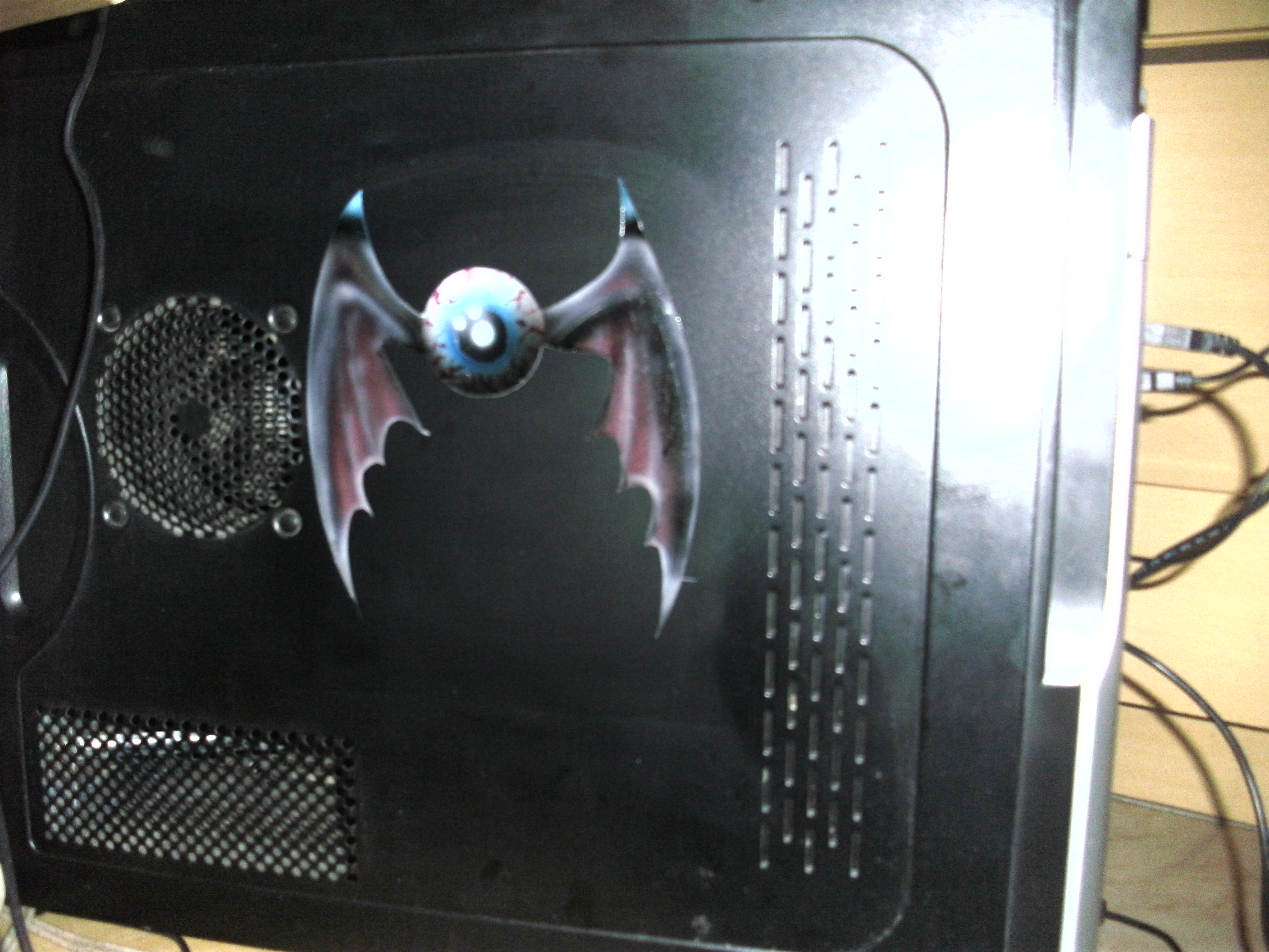 Flying Eyeball - Von Dutch Airbrush by Onjack (artinteiro)